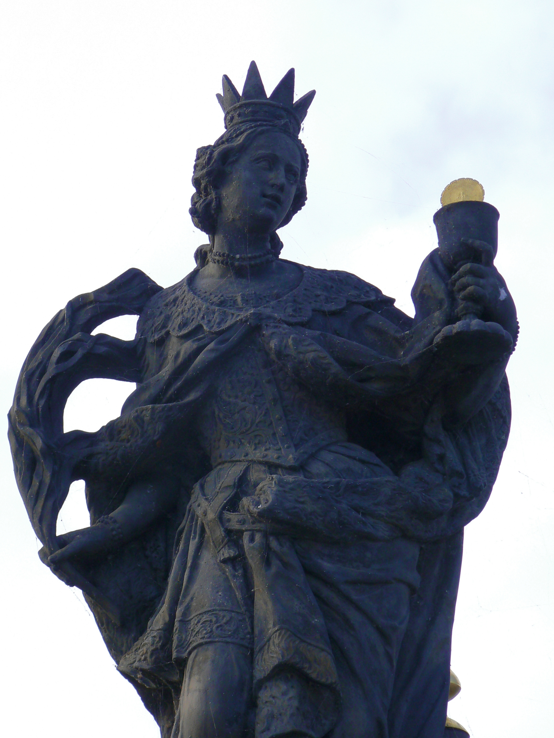 Statue of Saint Barbara of Nicomedia on Charles Bridge, Prague, Czechia (a part of the sculptural group of Saint Barbara, Saint Margaret and Saint Elisabeth)